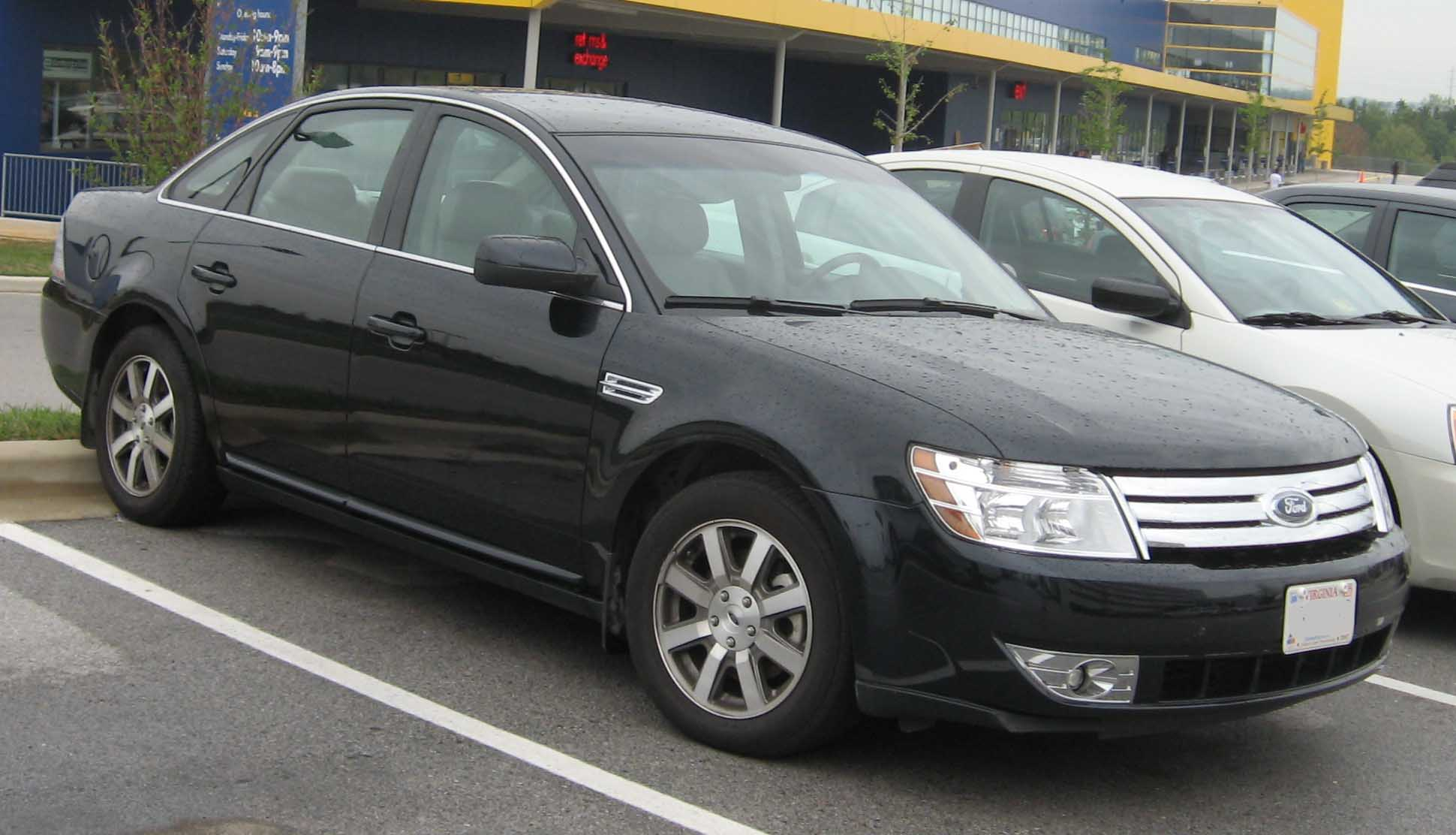 2008 Ford Taurus photographed in College Park, Maryland, USA.